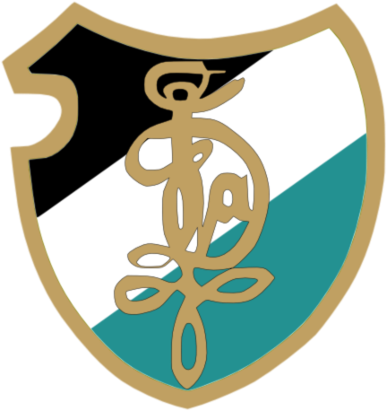 Logo of SC Diana Kattowitz, German football team.